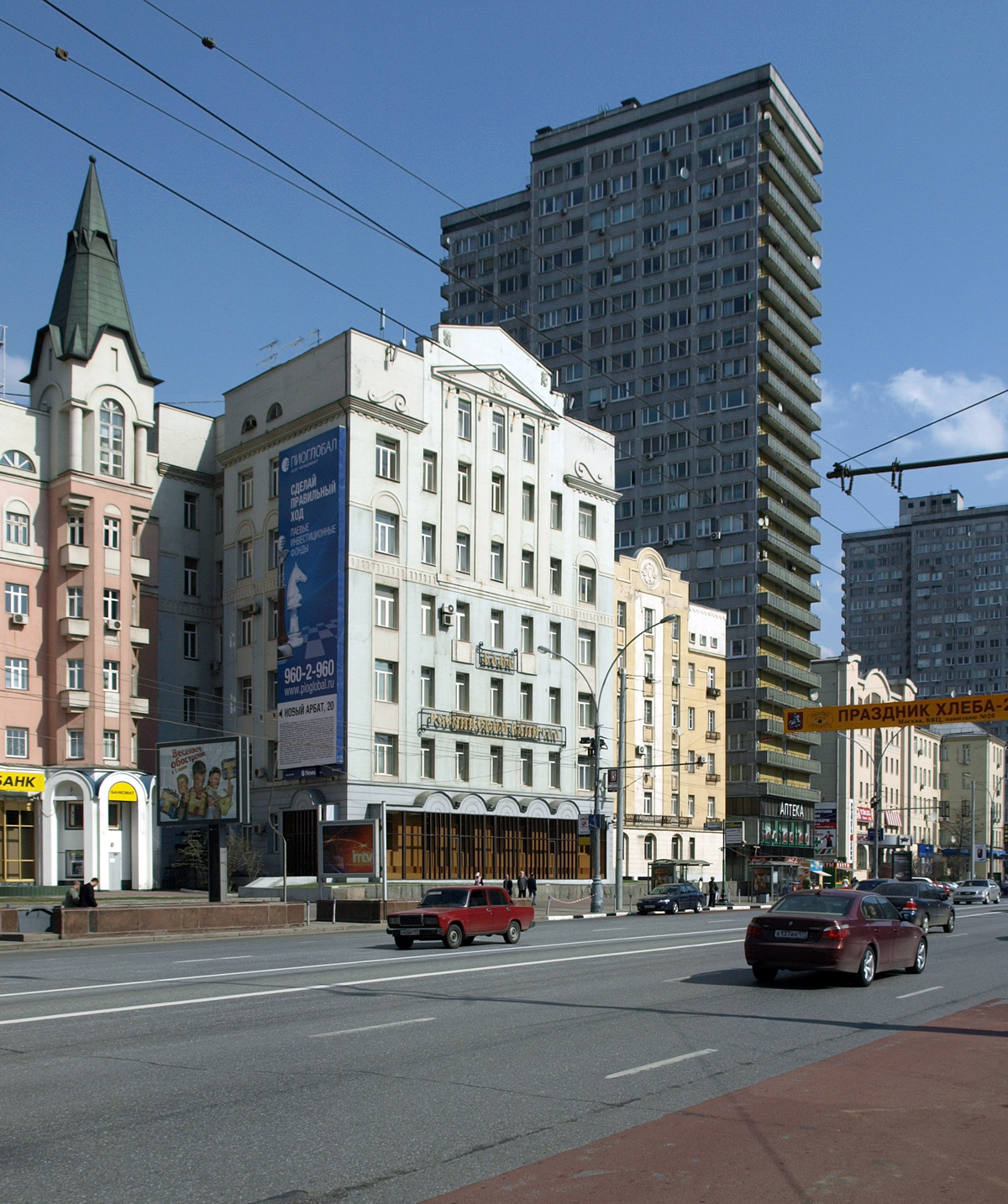 New Arbat, Moscow.